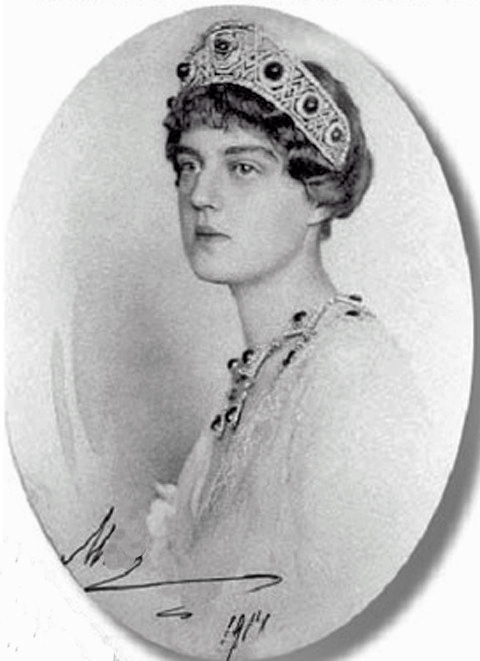 Grand Duchess Maria Pavlovna of Russia (1890–1958)